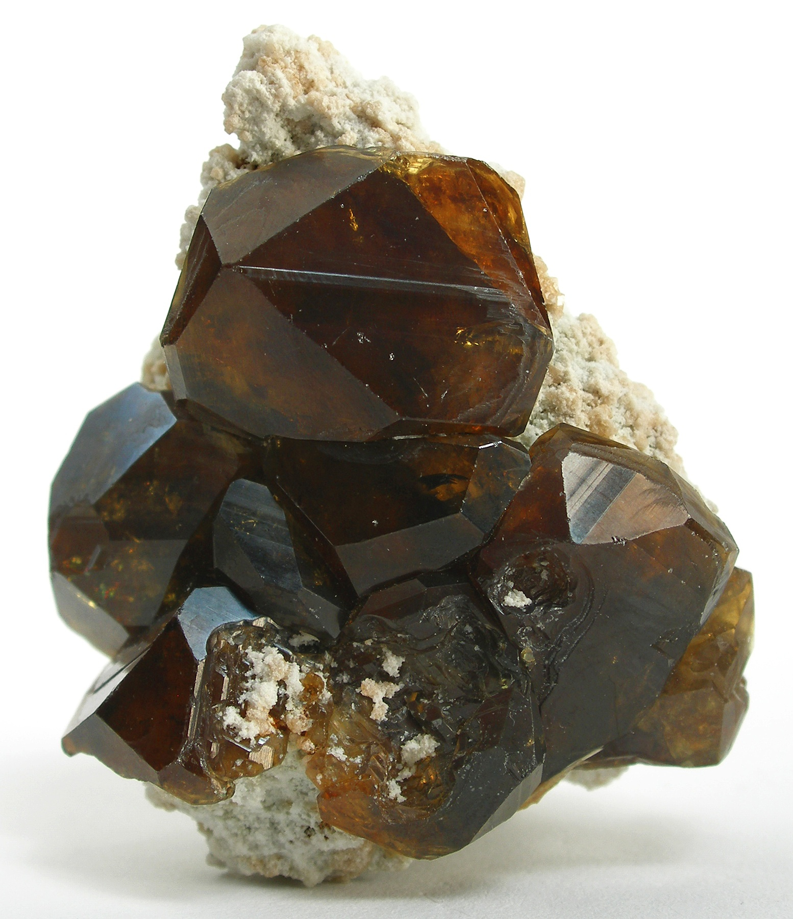 Andradite Locality: Antetezambato (Tetezambato), Ambanja District, Diana (Northern) Region, Antsiranana Province, Madagascar (Locality at ) Size: miniature, 4.6 x 4.1 x 2.9 cm Andradite var. Topazolite garnet A superior example by any standard of the topazolite variety of garnet: Highlighted by a large, robust 2 cm crystal, these glassy and gemmy, cognac-colored andradite var. topazolite crystals sit on a matrix of metsomatized (metamorphosed from limestone) garnet. An elegant and superb specimen with a dominating main crystal atop, this is an important example of the species.